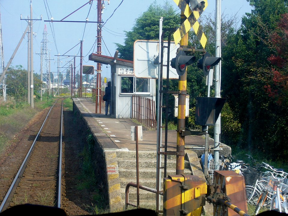 Chigozuka Station on the Toyama Chiho Railway Tateyama Line in Tateyama, Toyama Prefecture, Japan